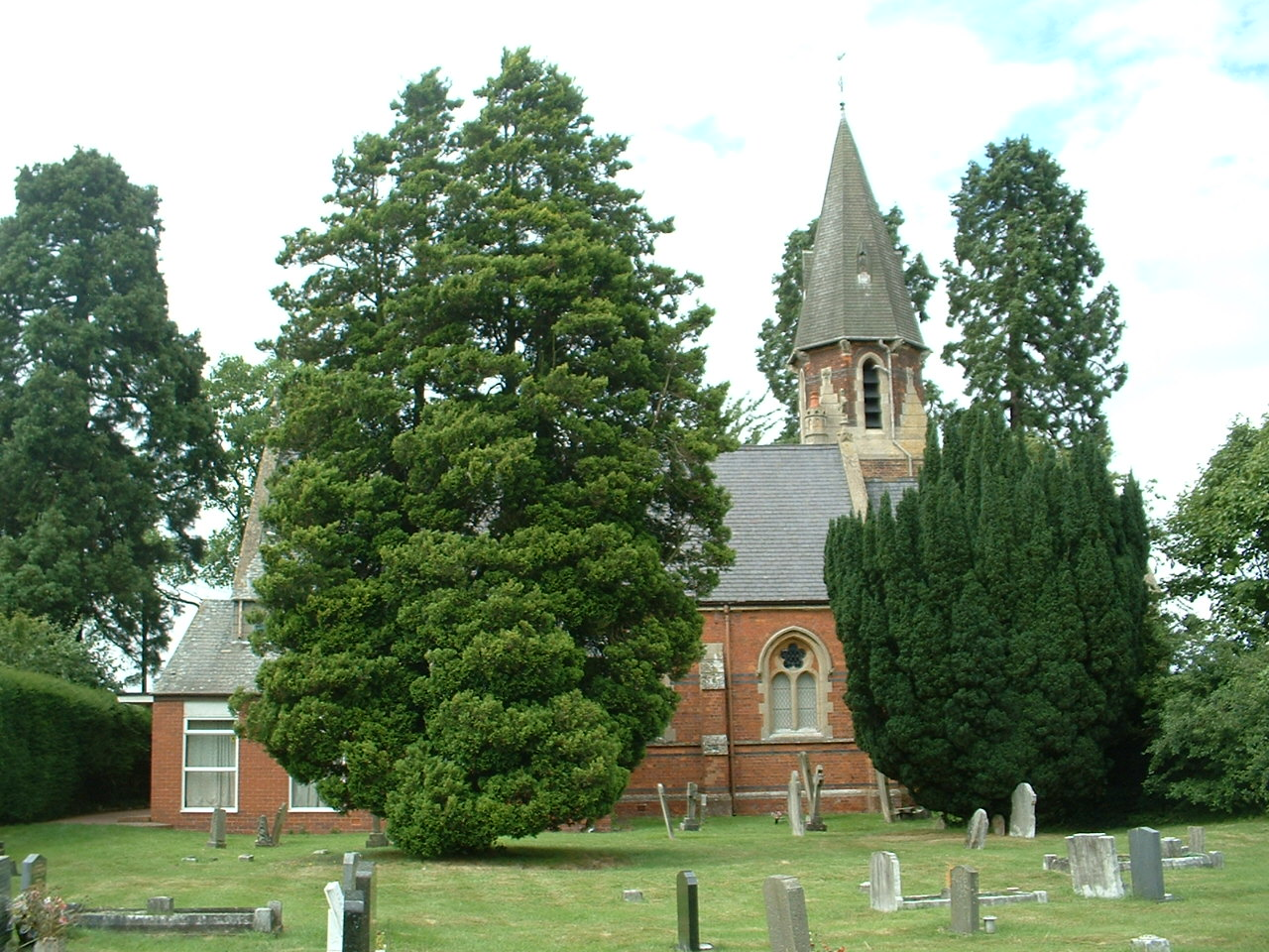 St Andrew's parish church, Eastern Green, Coventry, England, on 31 July 2005. It was designed by Samuel Sanders Teulon and built in 1875.